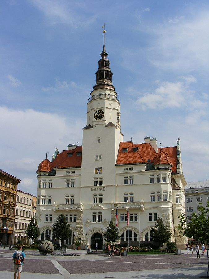 Opava - "Hláska" - main square